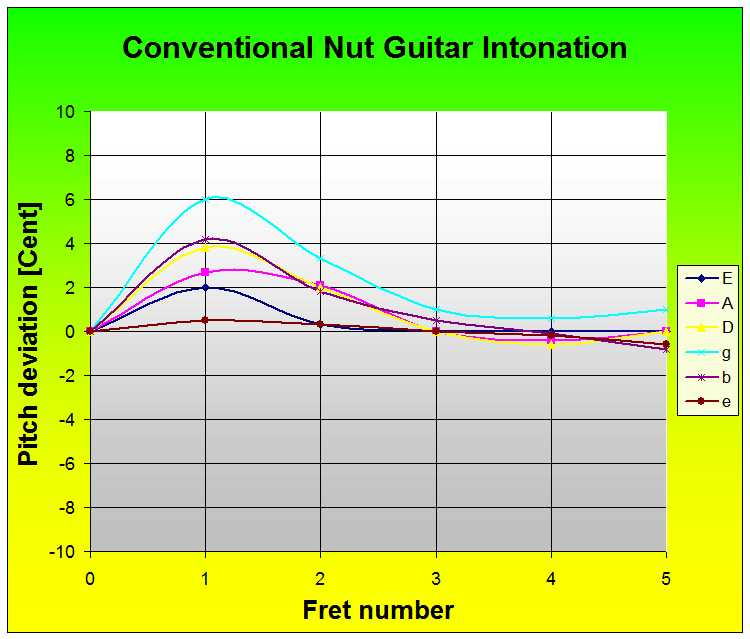 Real measurement data from a YAMAHA nylon concert guitar with high conventional nut and high string action. (Distance between fret wire and string). Frets 1 to 3 produce pitch variations due to the high string action and larger pressure force.